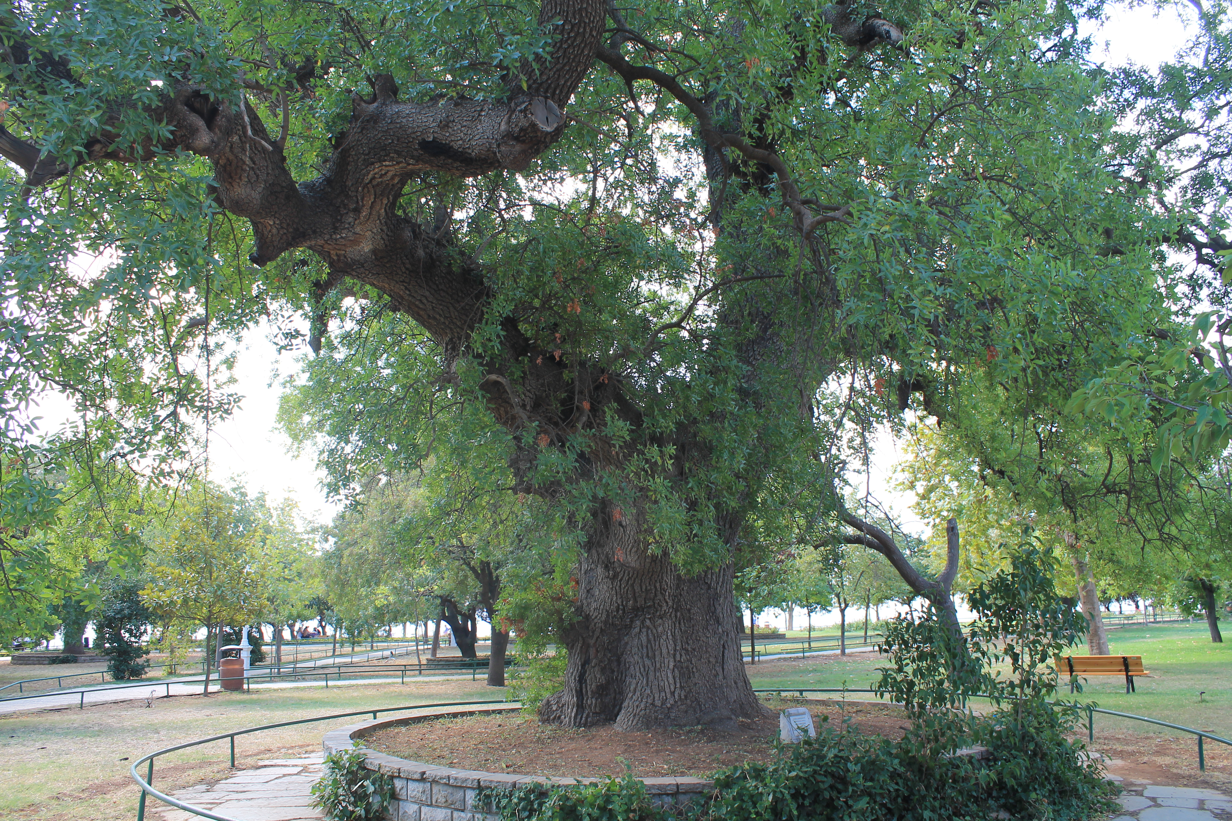 Pistacia lentiscus in İstanbulTürkçe: Fenerbahçe Parkı Sakız Ağacı